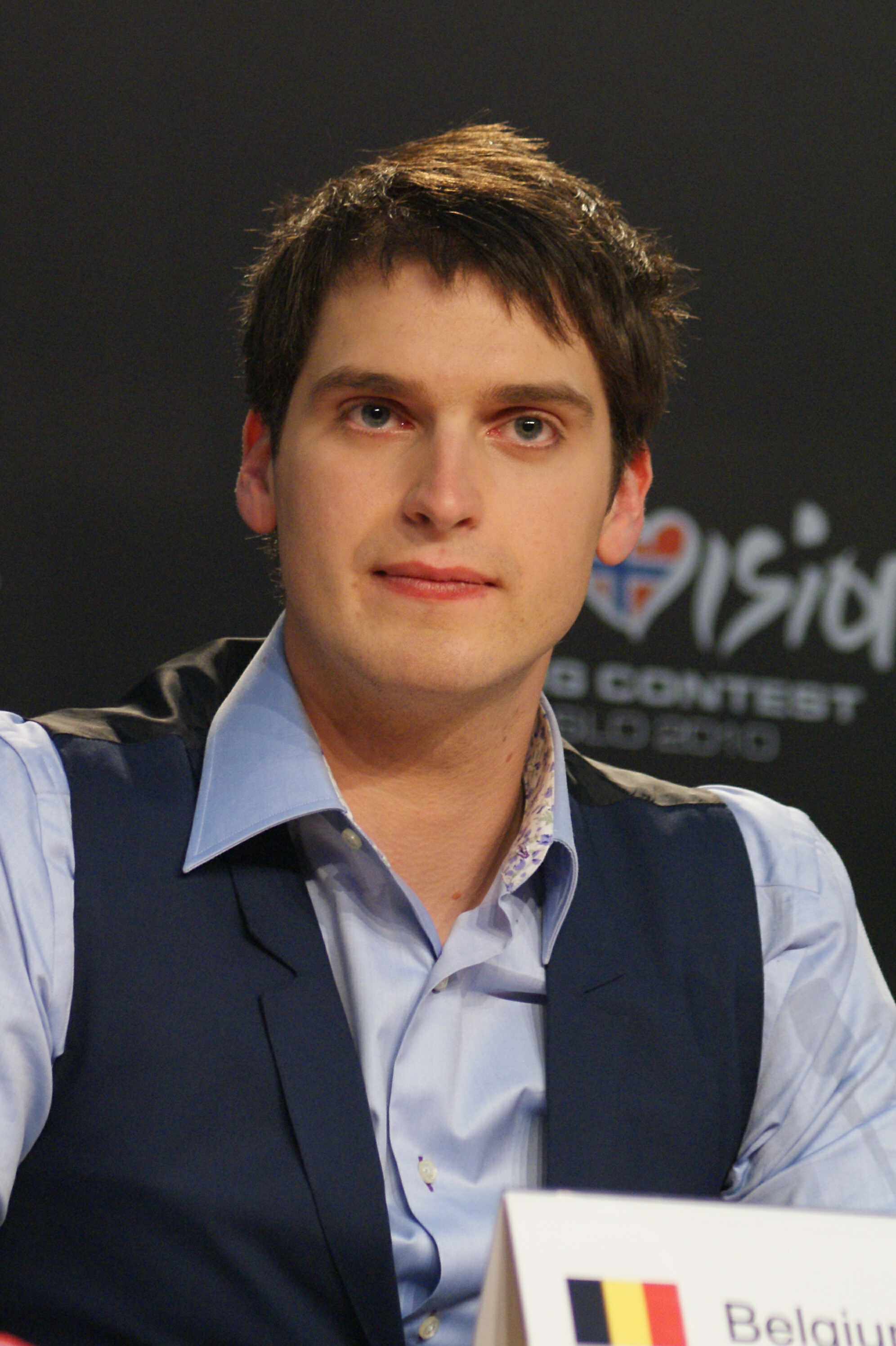 Tom Dice at a press conference for the Eurovision Song Contest 2010 in Oslo.